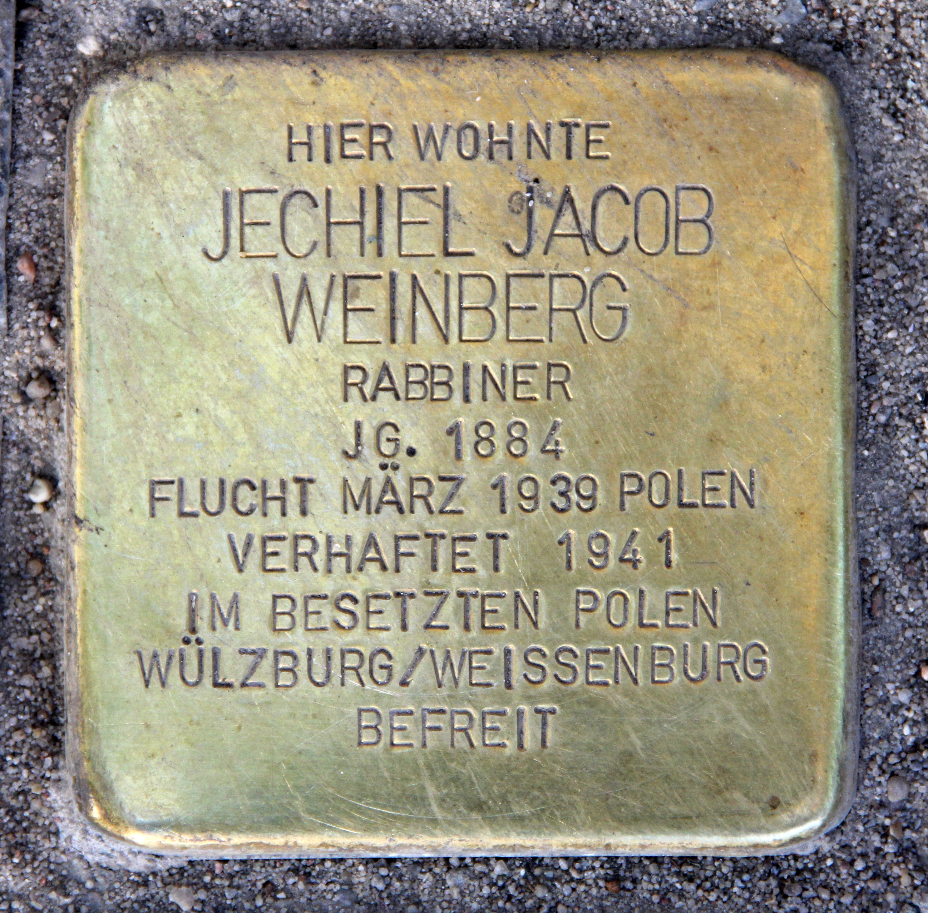 "Stolperstein" (stumbling block), Jechiel Jacob Weinberg, Wilmersdorfer Straße 106, Berlin-Charlottenburg, Germany